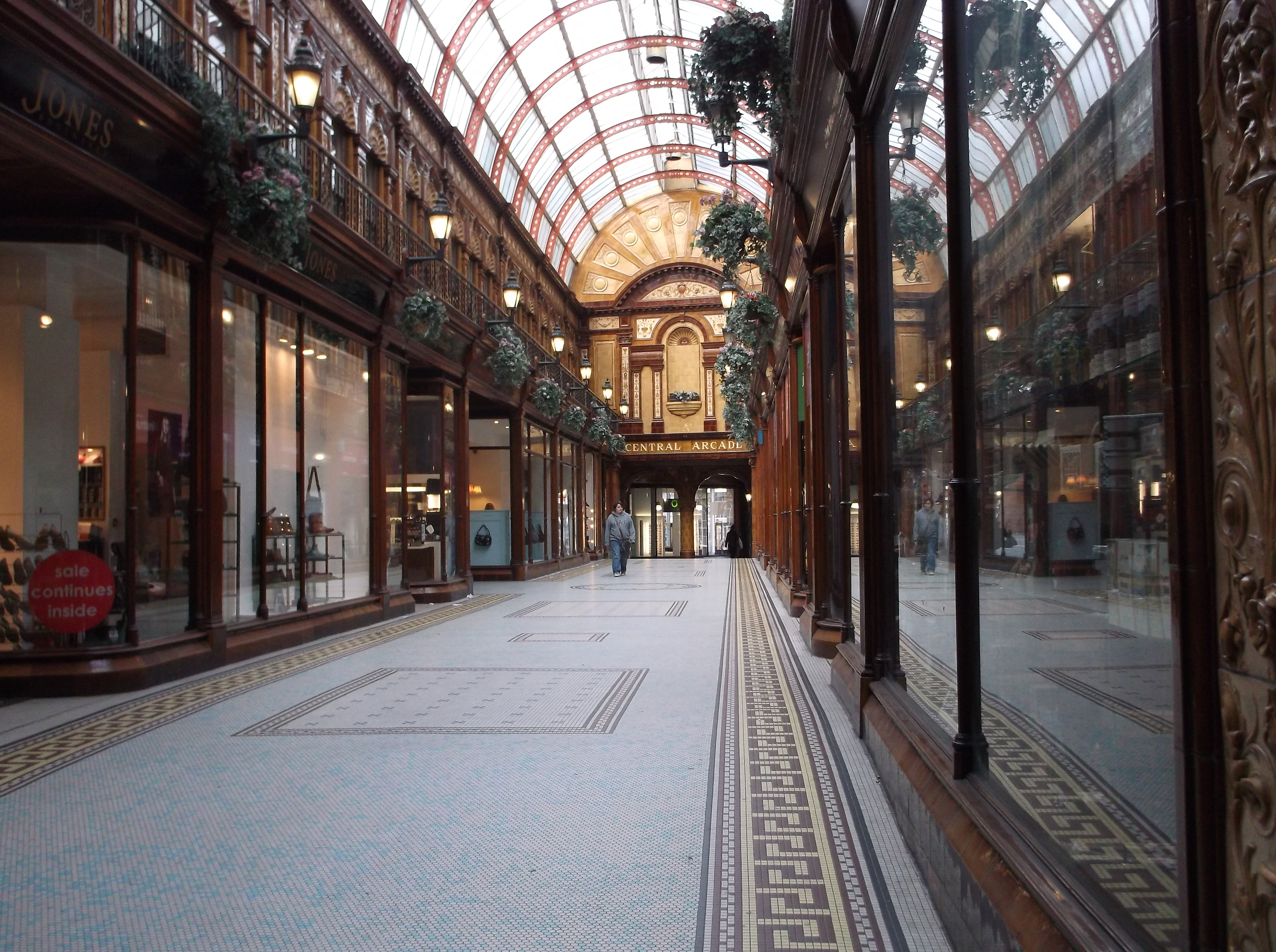 Central Arcade, a shopping centre in the middle of Newcastle upon Tyne (Grey Street/Market Street/Grainger Street) with some very interesting Art Nouveau architecture.